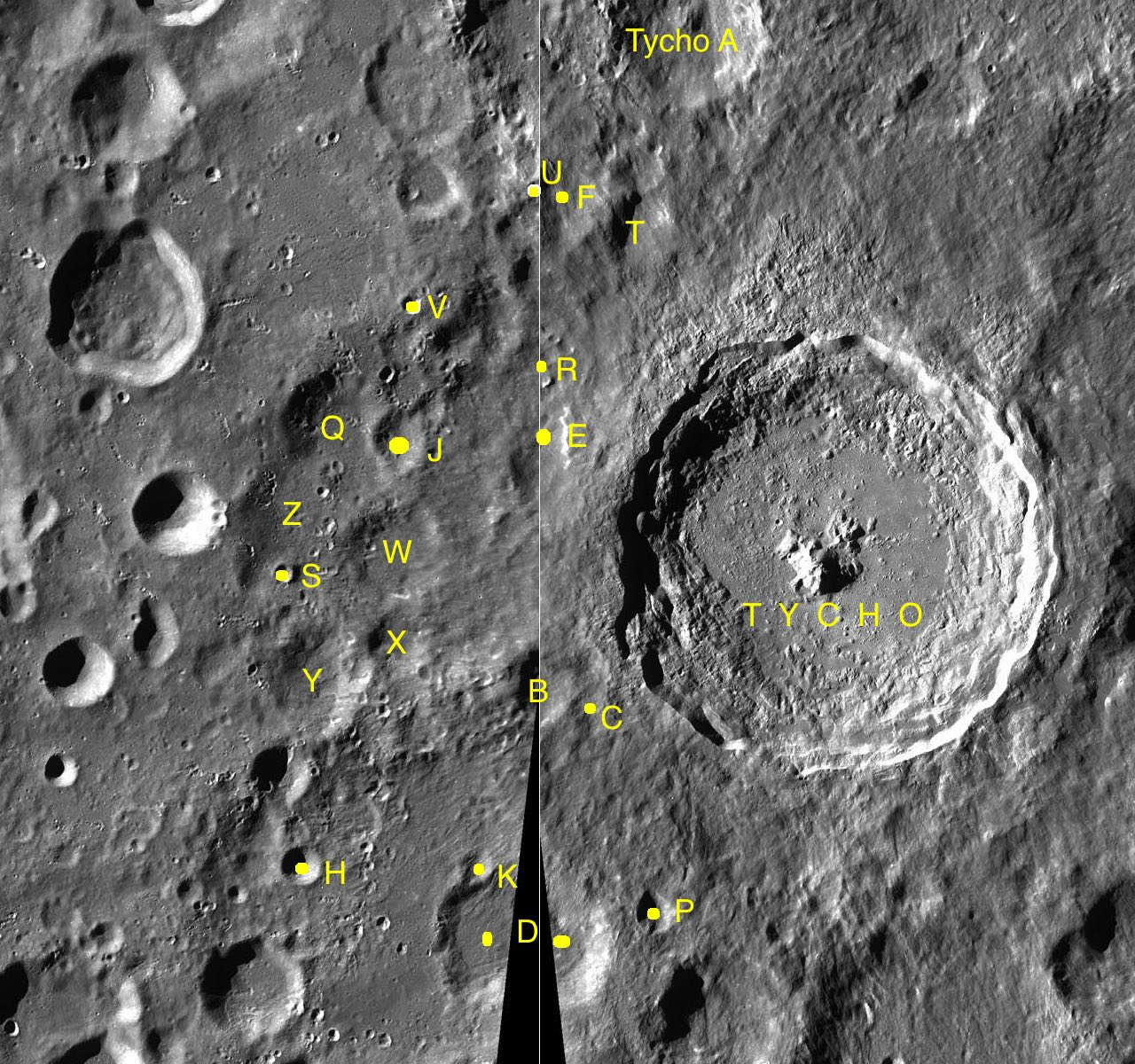 Part of the charts LAC-11, LAC-112 used for the presentation